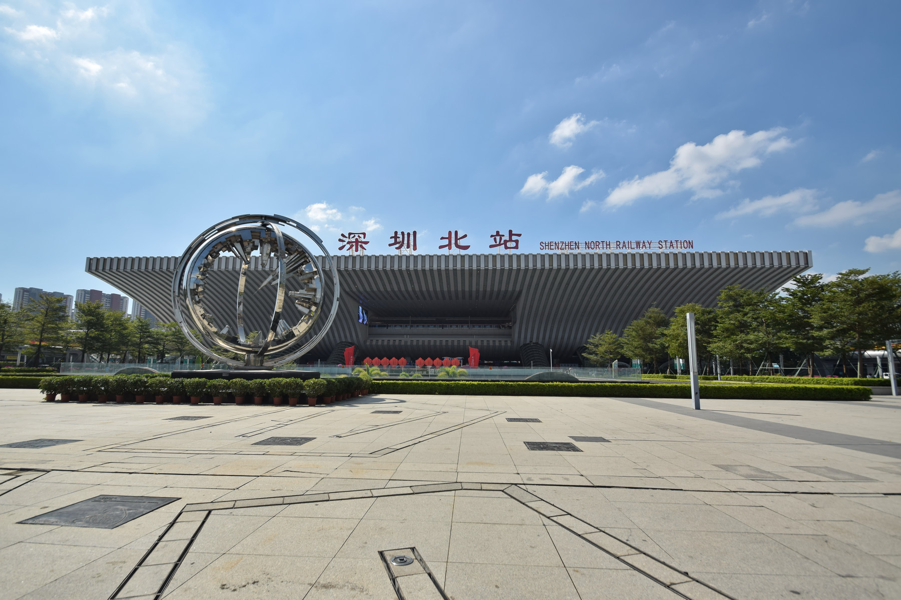 East Square of Shenzhen Bei (North) Railway Station